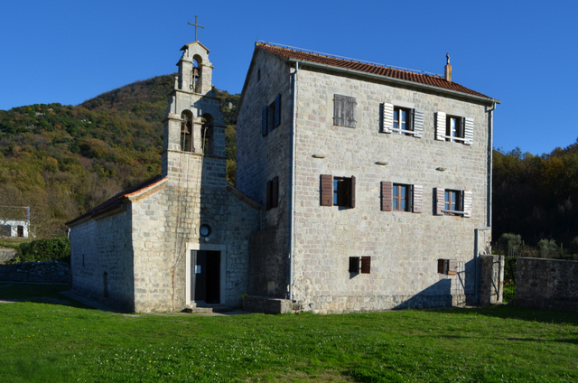 Podlastva monastery, Mongtenegro